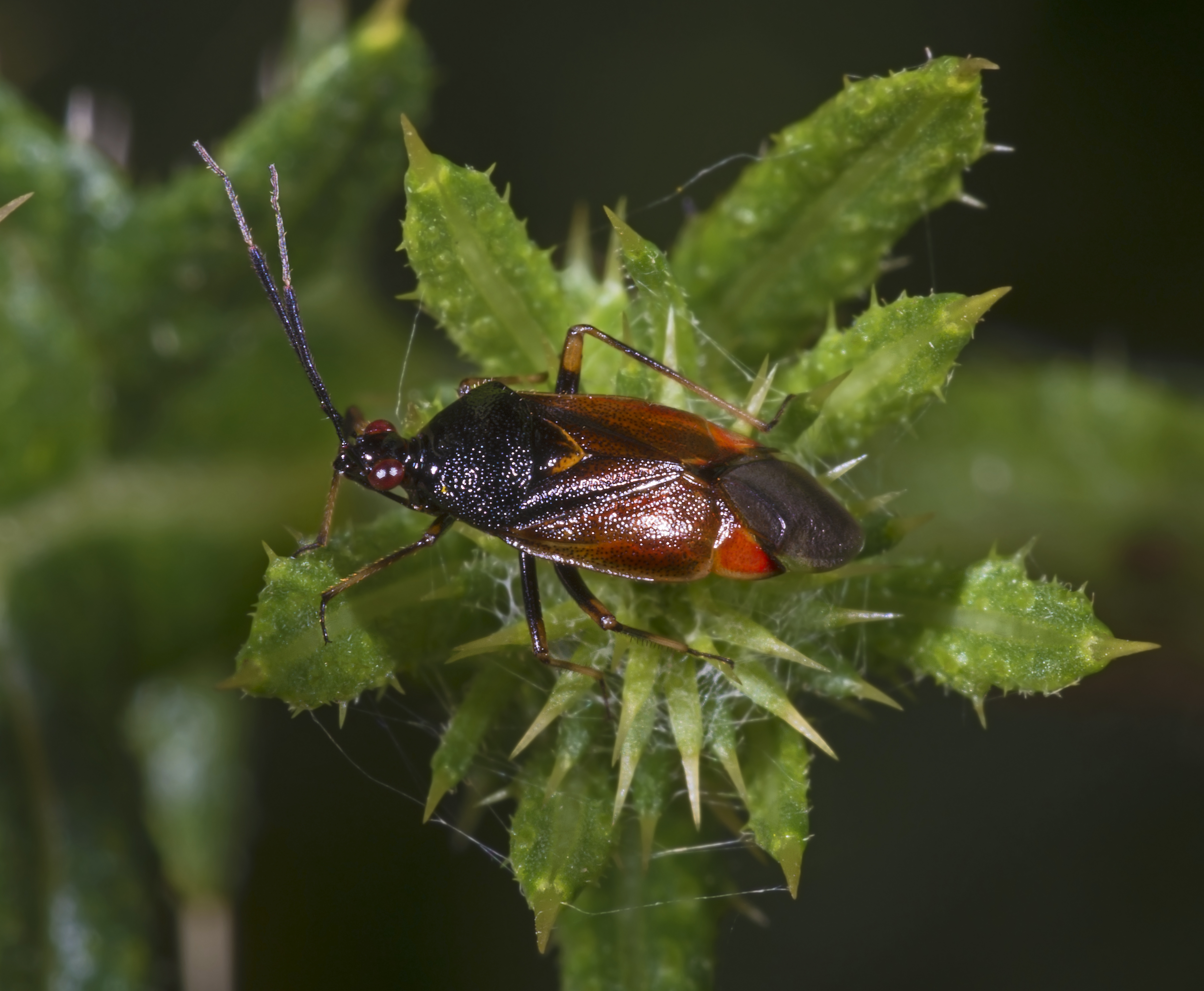 Mirid Bug